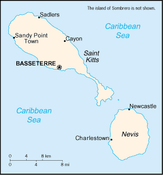 Map of Saint Kitts and Nevis, showing major towns.